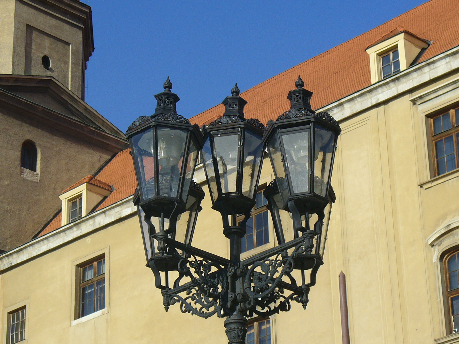 Street light in front of Bratislava Castle. Bratislava, Slovakia.